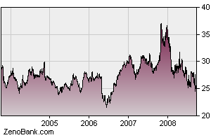 Microsoft Corp (NYSE: MSFT) stock 5 years.